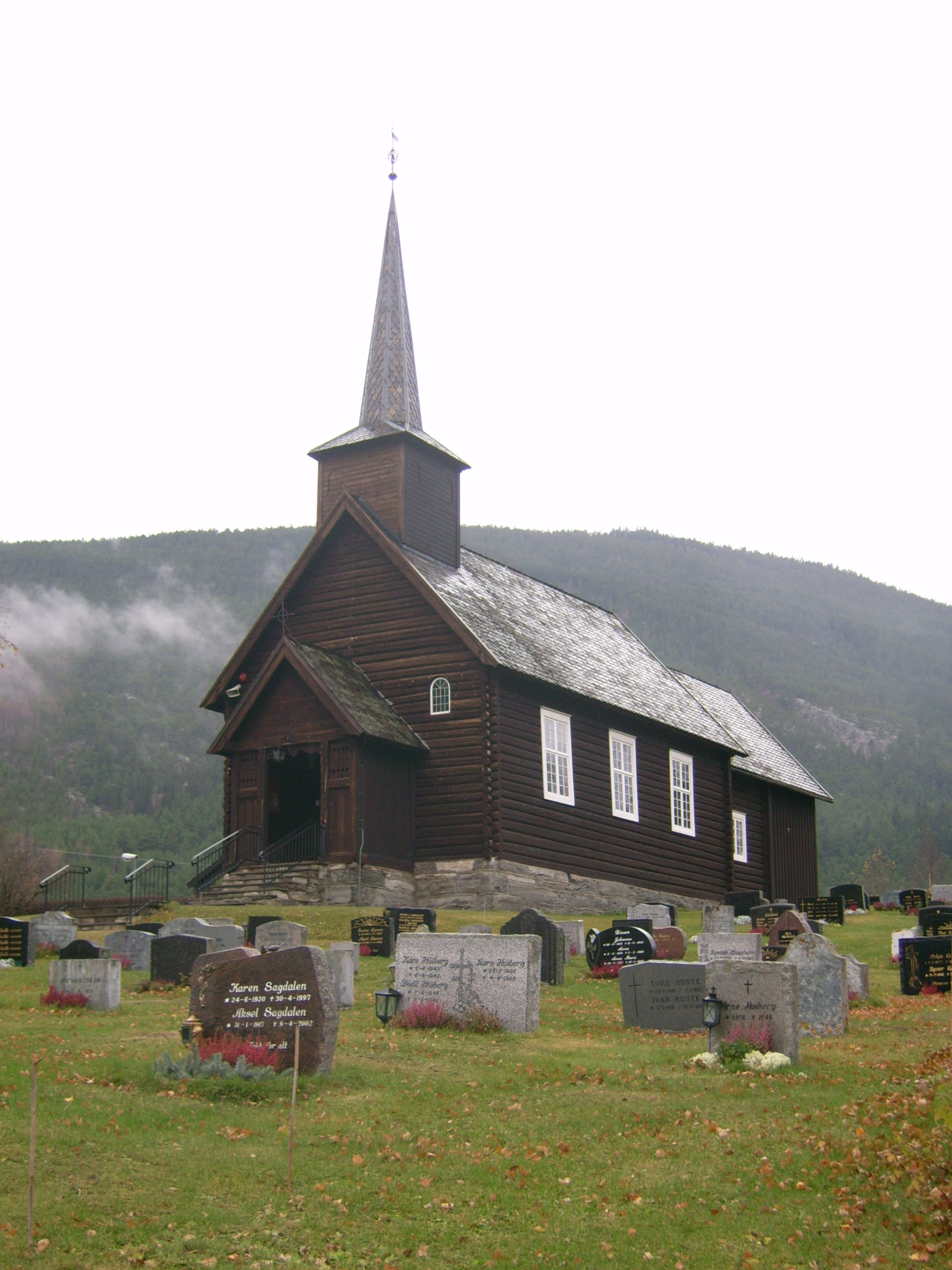 Nord-Sel church, Sel, Oppland, Norway.